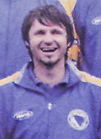 Group photo before qualifications for Euro 2004 got under way Bosnia and Herzegovina national football team in 2002